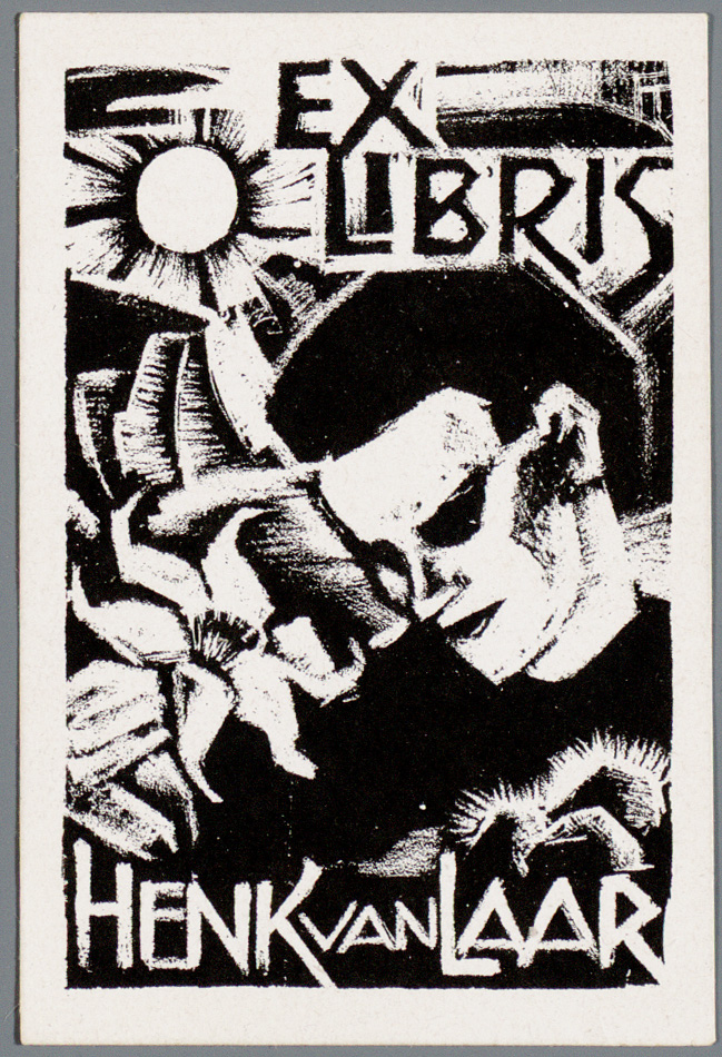 Fré Cohen 1931 ex libris Henk van Laar (Amsterdam, 5 februari 1898 – aldaar, 2 december 1955) 078, 13-11-2002, 15:19, 8C, 6796x5566 (1203+2357), 100%, JHM, 1/80 s, R40.1, G21.5, B29.3